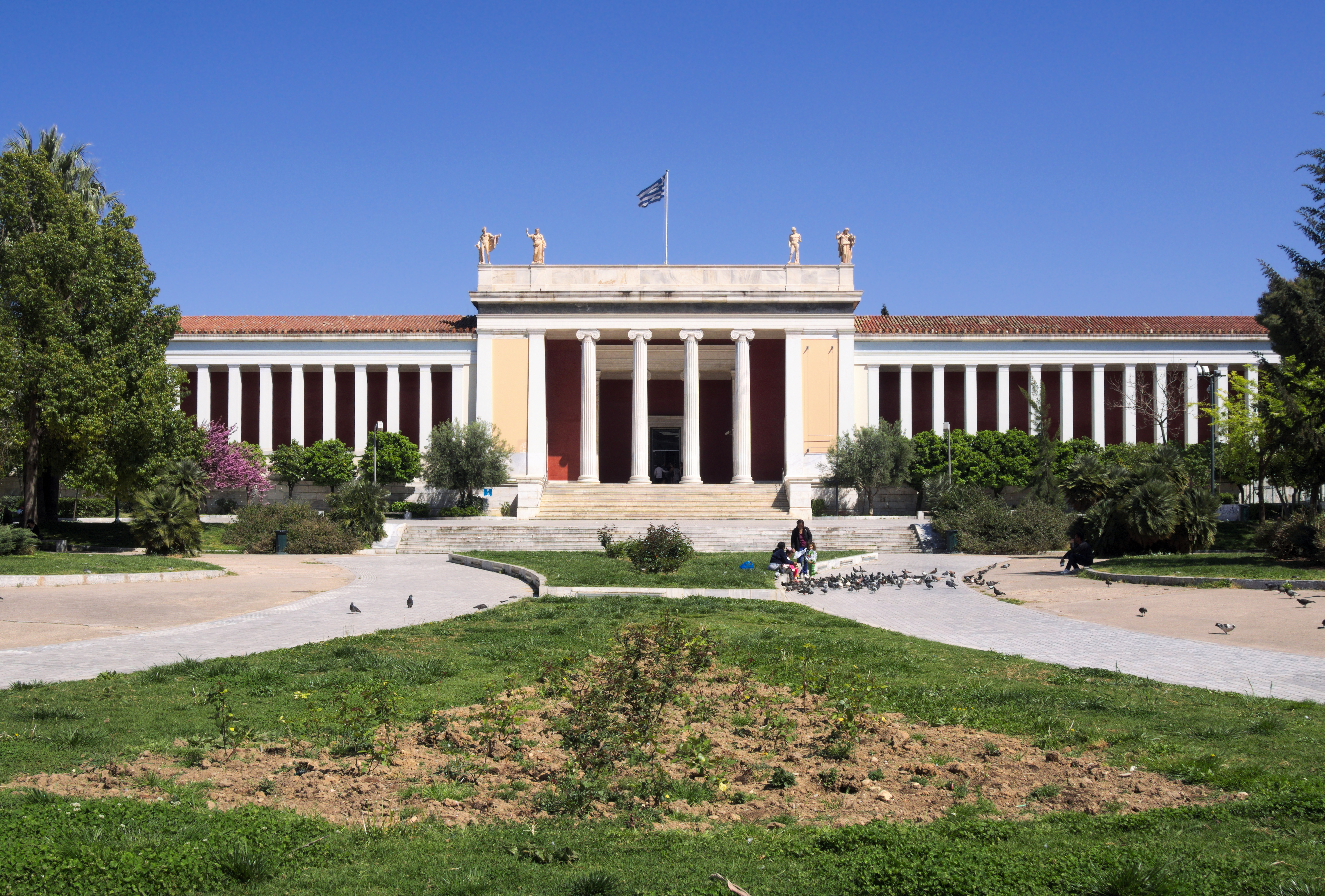 The facade of National Archaeological Museum of Athens.